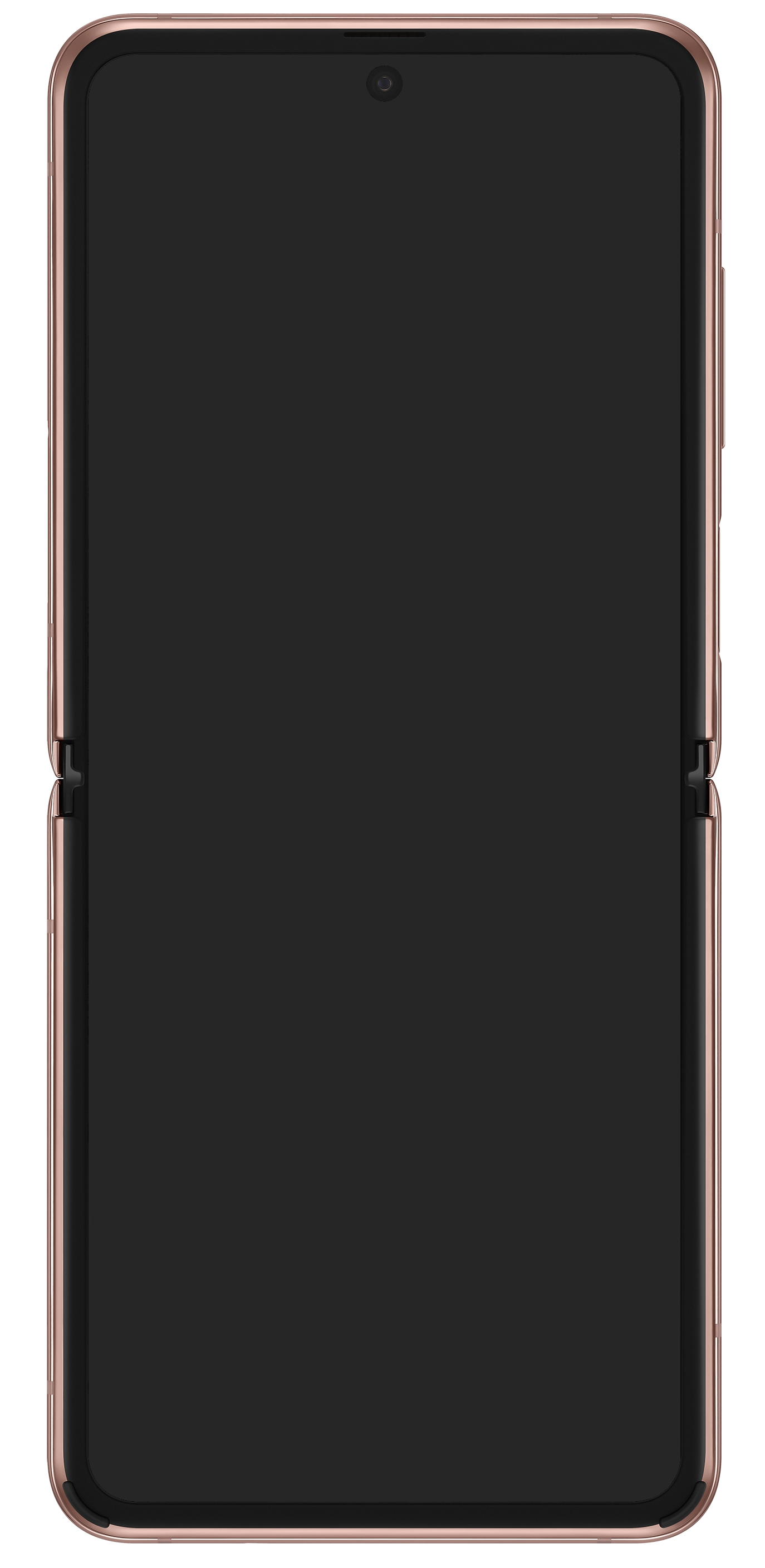 Galaxy Z Flip vector